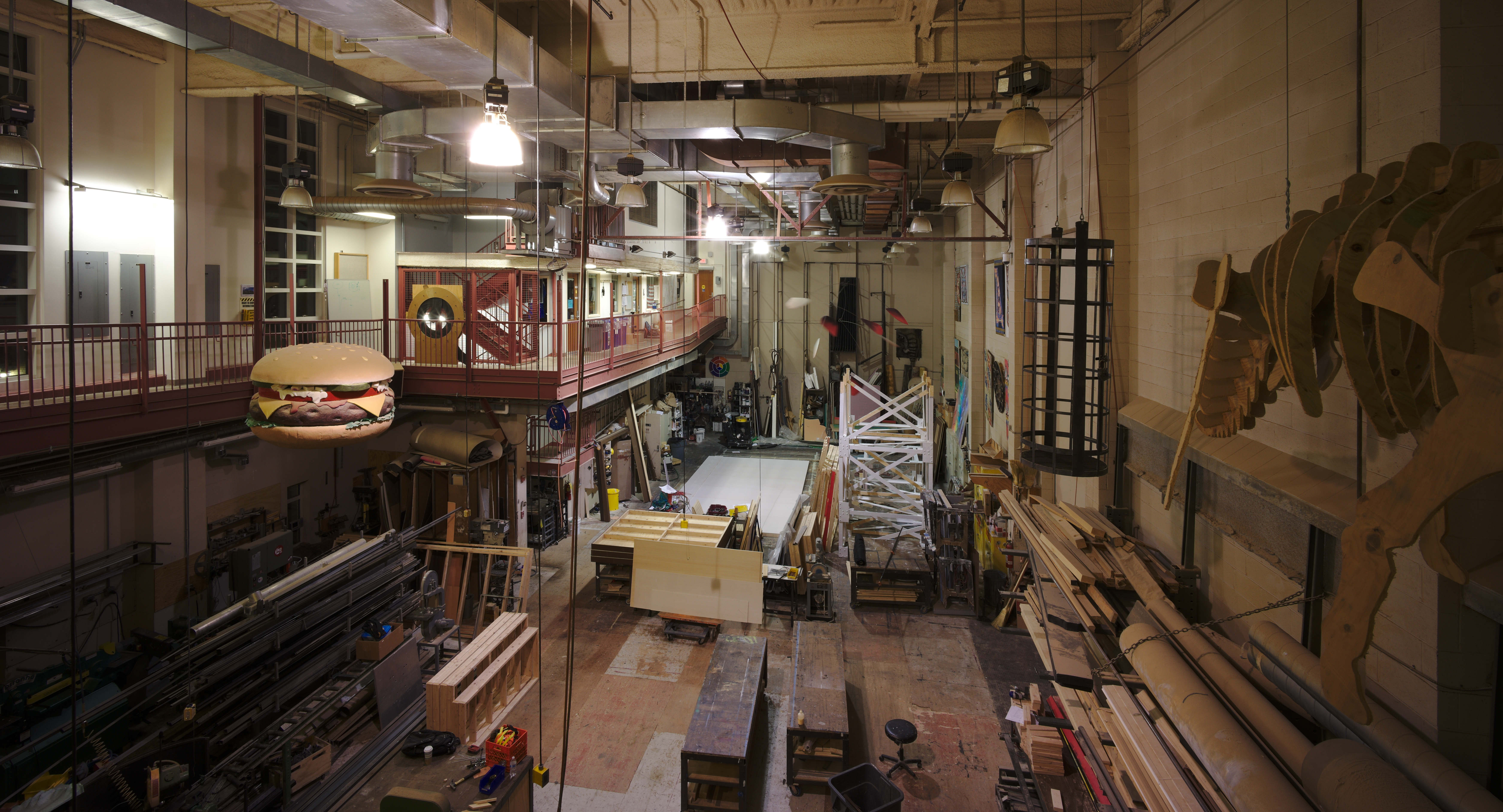 The Carnegie Mellon School of Drama is the oldest degree-granting drama program in the United States, founded in 1914 as a division of the College of Fine Arts at Carnegie Mellon University.